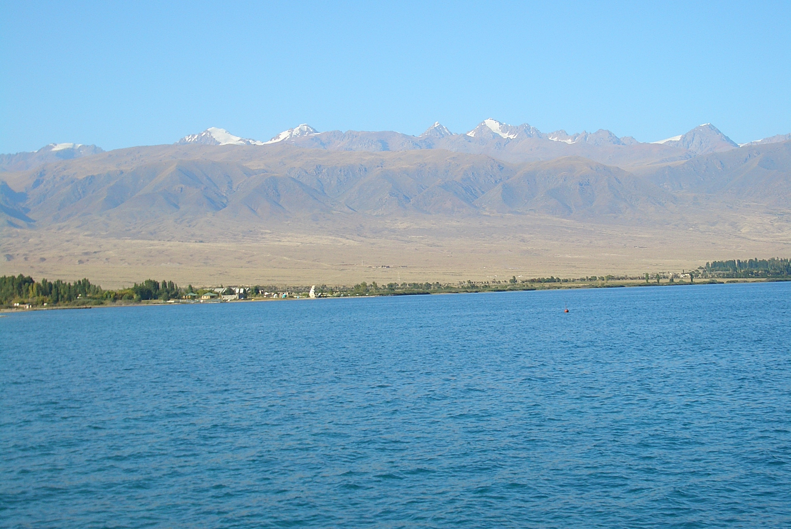 The skyline of Tamchy Bay (the eastern part of Kosh Kol to the western edge of Tamchy) seen from Ak Jol pier (in Kosh Köl, a few km to the west) on Lake Issyk Kul